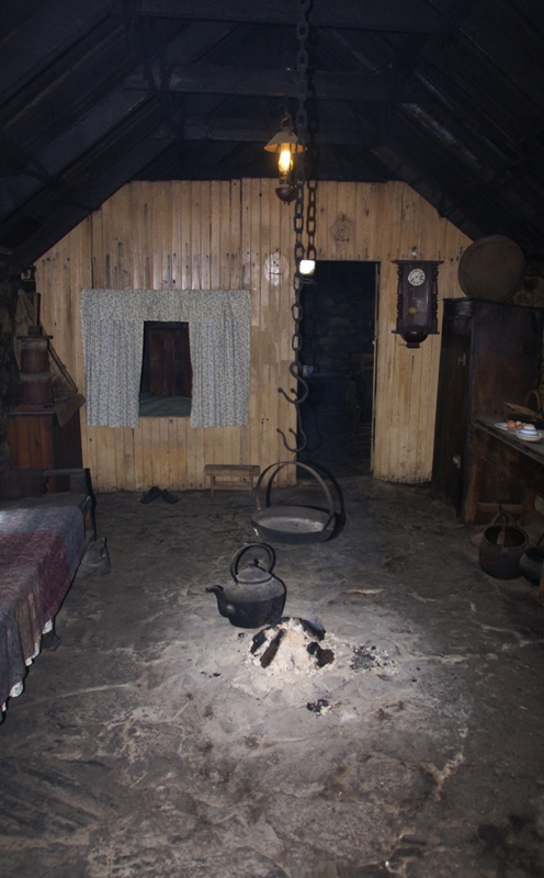 Arnol Blackhouse, Arnol, Lewis, Outer Hebrides, Scotland - no. 42, interior